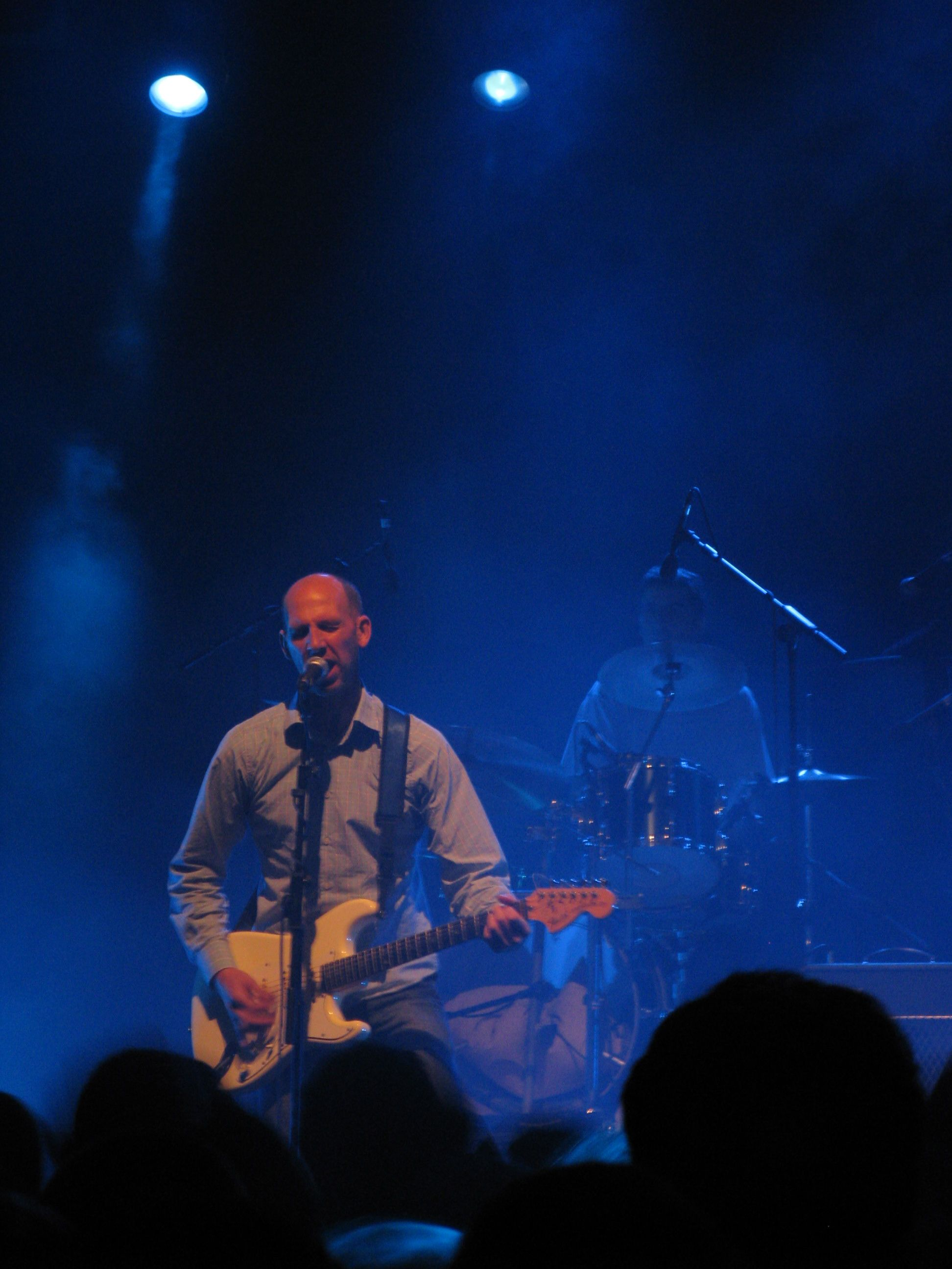 Nigel Blackwell of Half Man Half Biscuit, October 2008